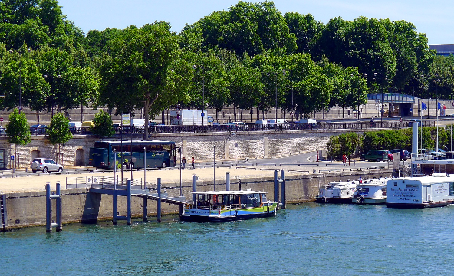 Vogueo - Paris